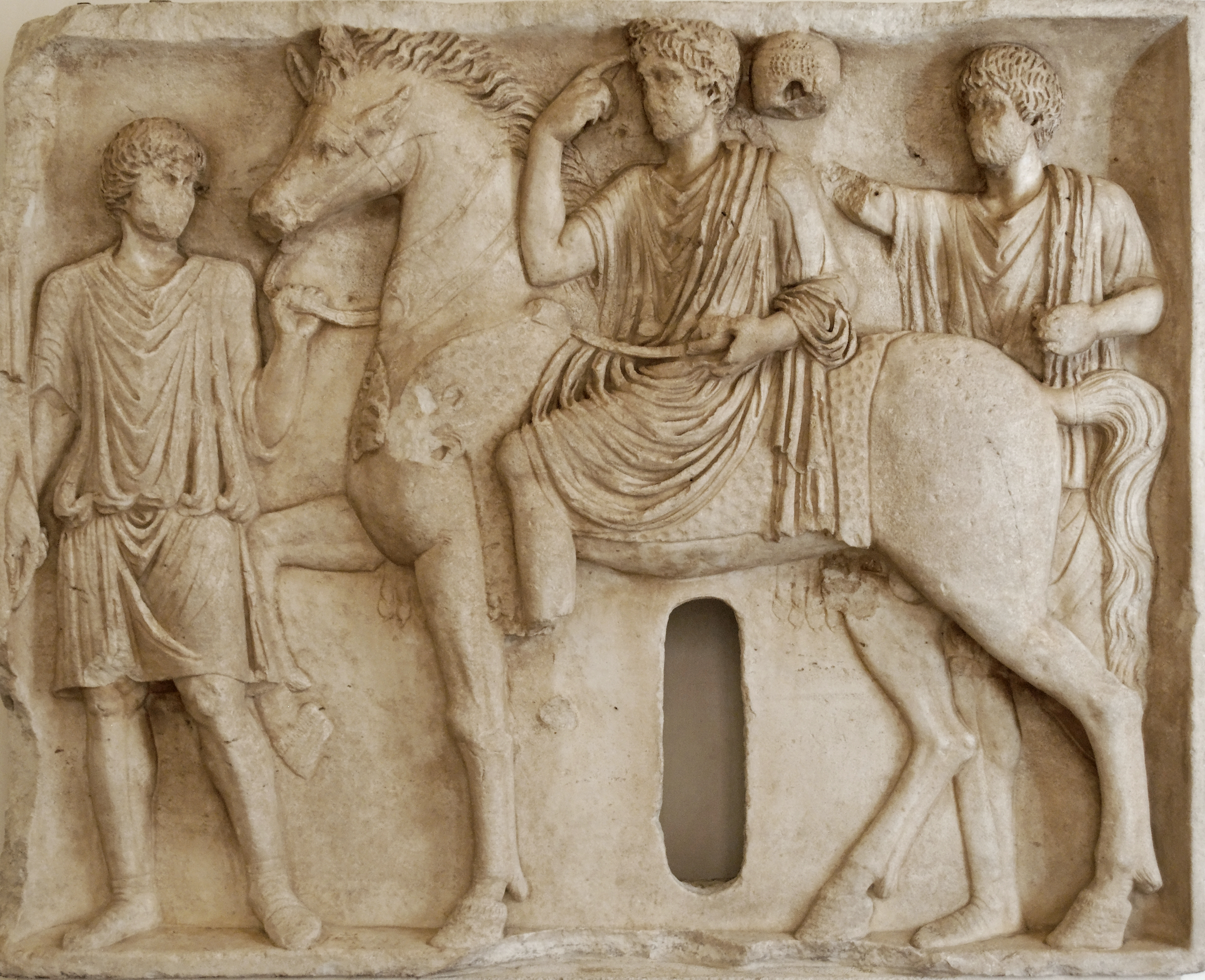 Procession of a Salian knight, funerary relief. Coarse-grained marble, late 2nd century AD.